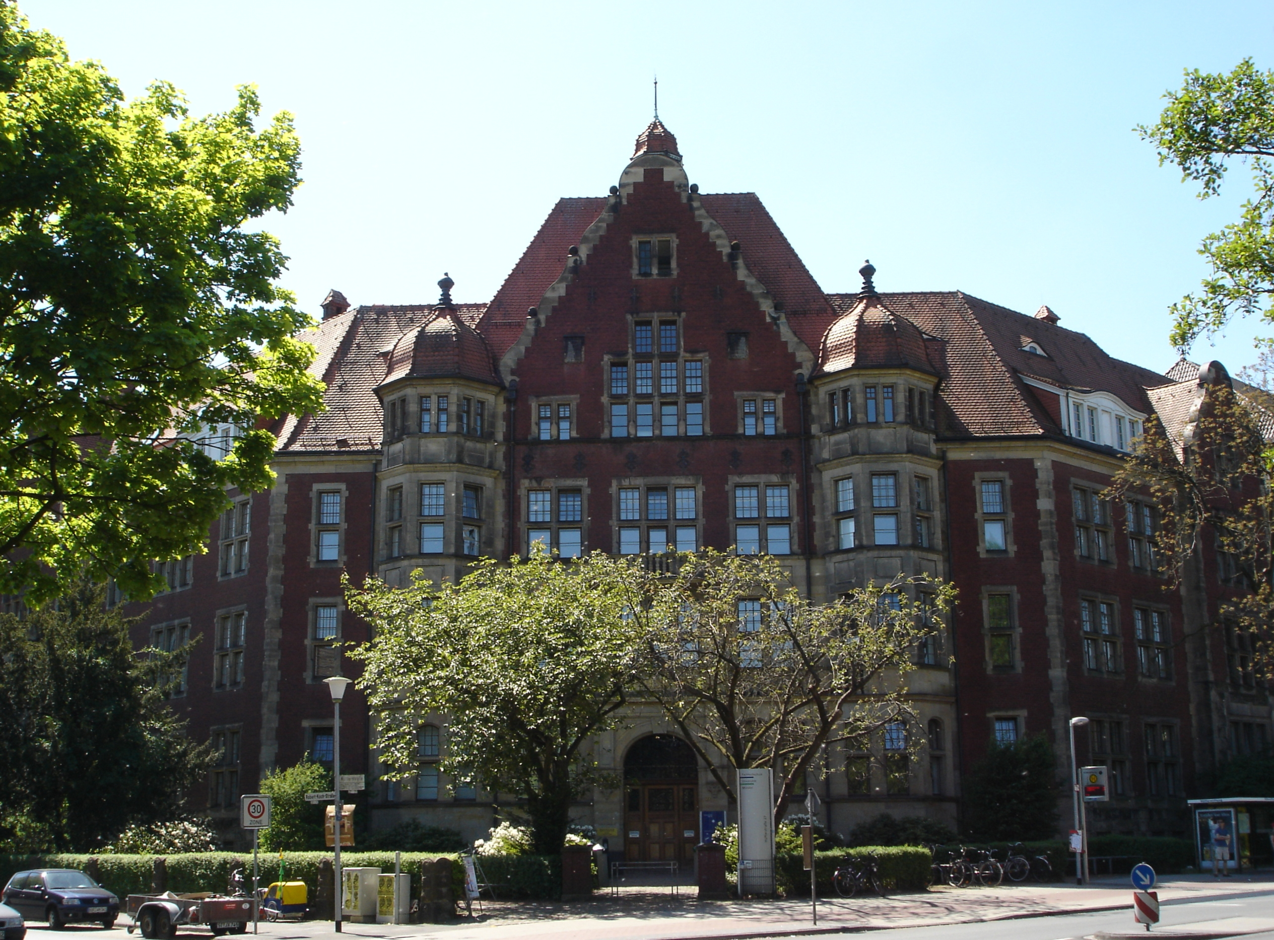 View on the main entrance of the "Hüfferstiftung" in the city of Münster (Westphalia), Germany